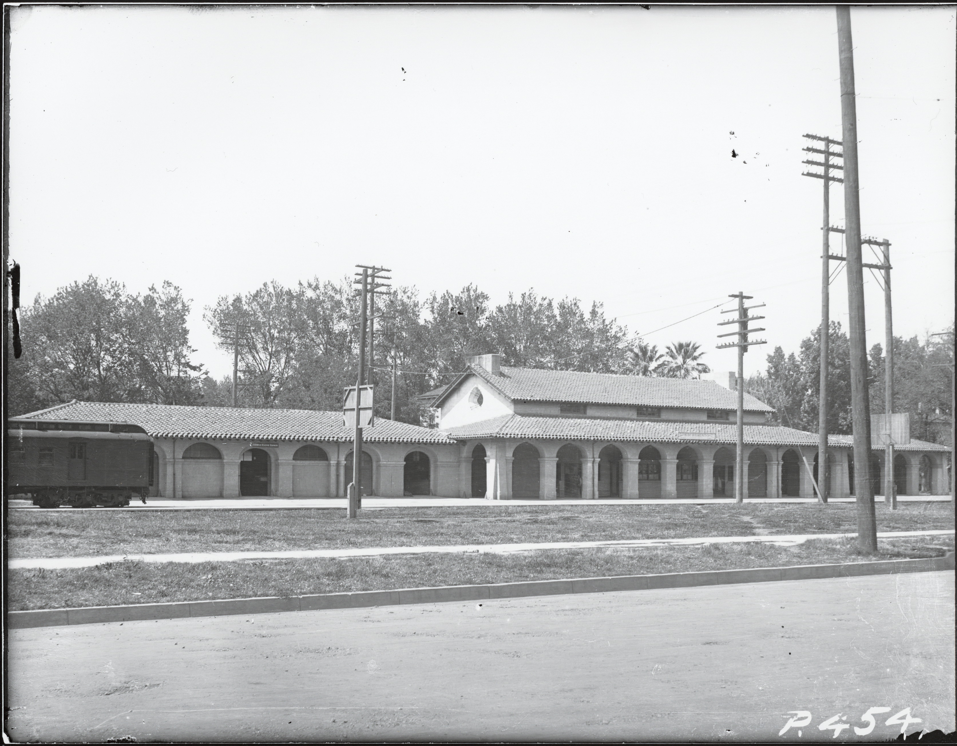 The Western Pacific Railroad station in California shortly after the line's completion